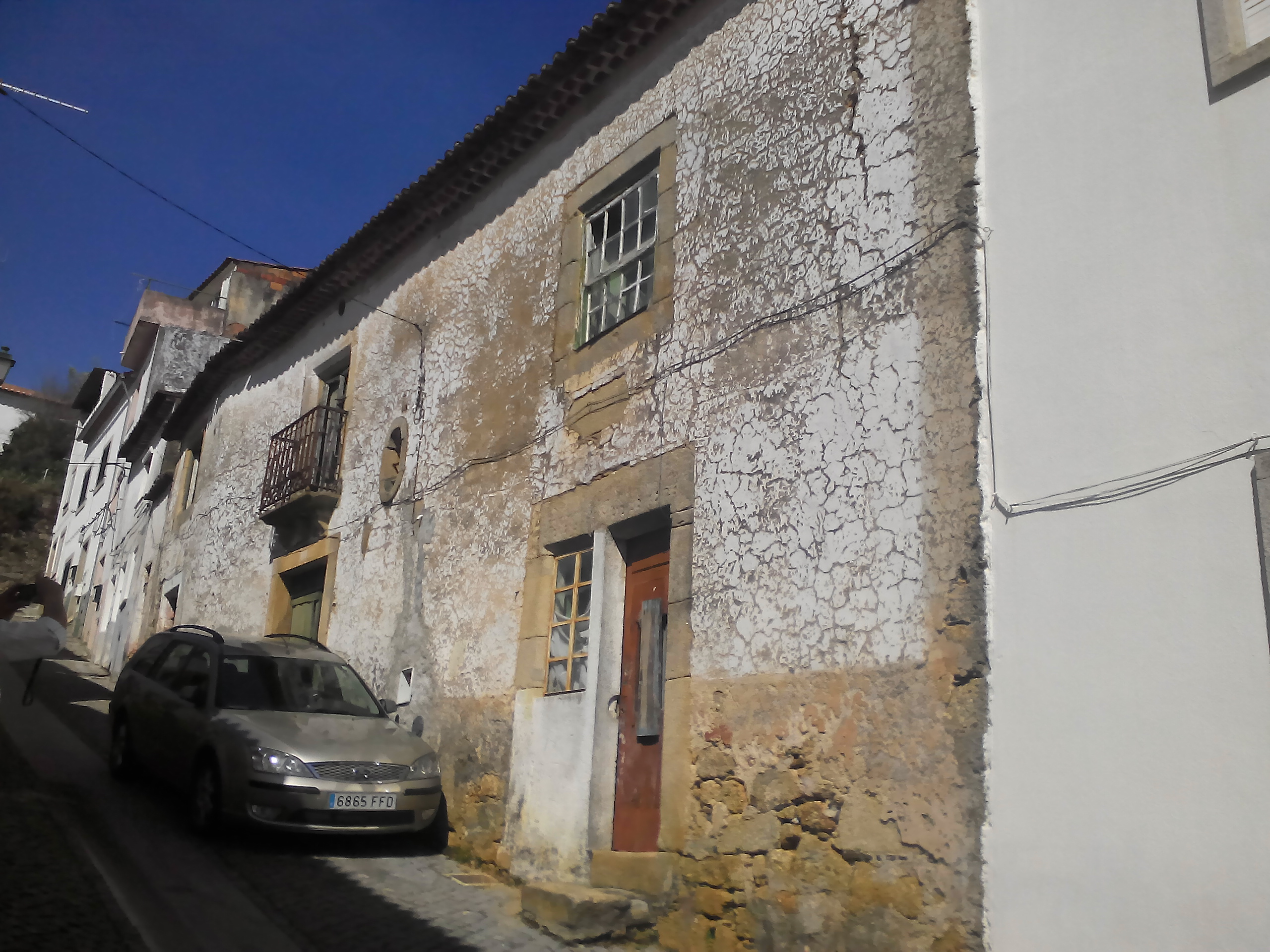 casa do Tesoureiro Santo